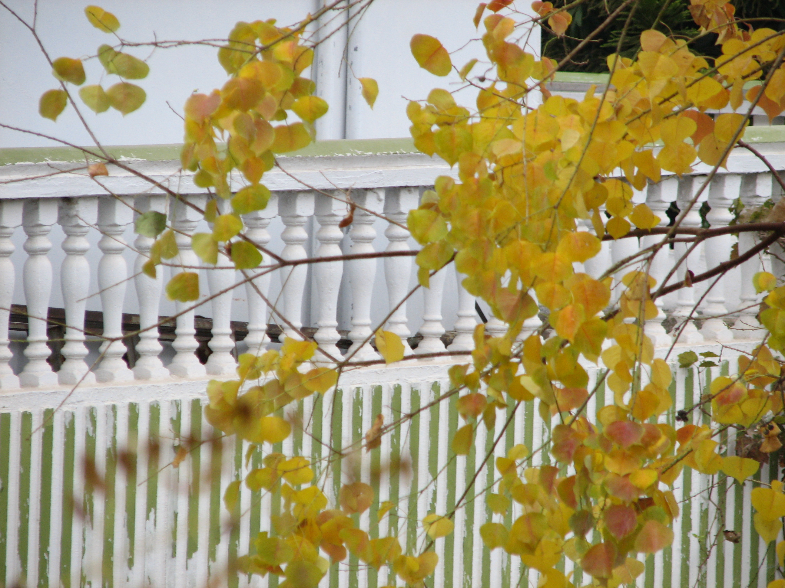 Leaves ready to fall from a tree in Islamabad, Pakistan.